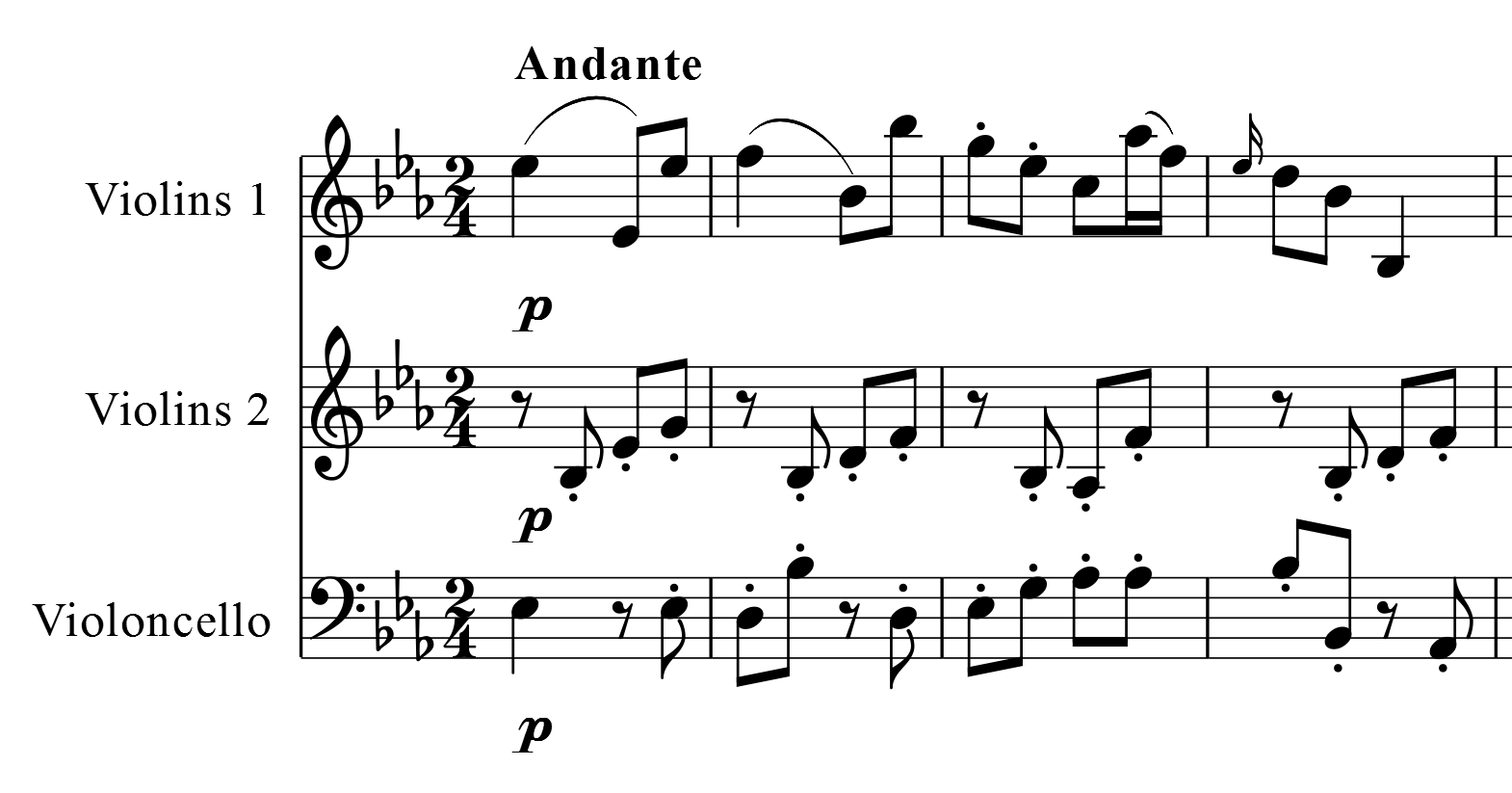 Joseph Haydn, Symphony "A" Hoboken I:107, second movement, bar 1-4